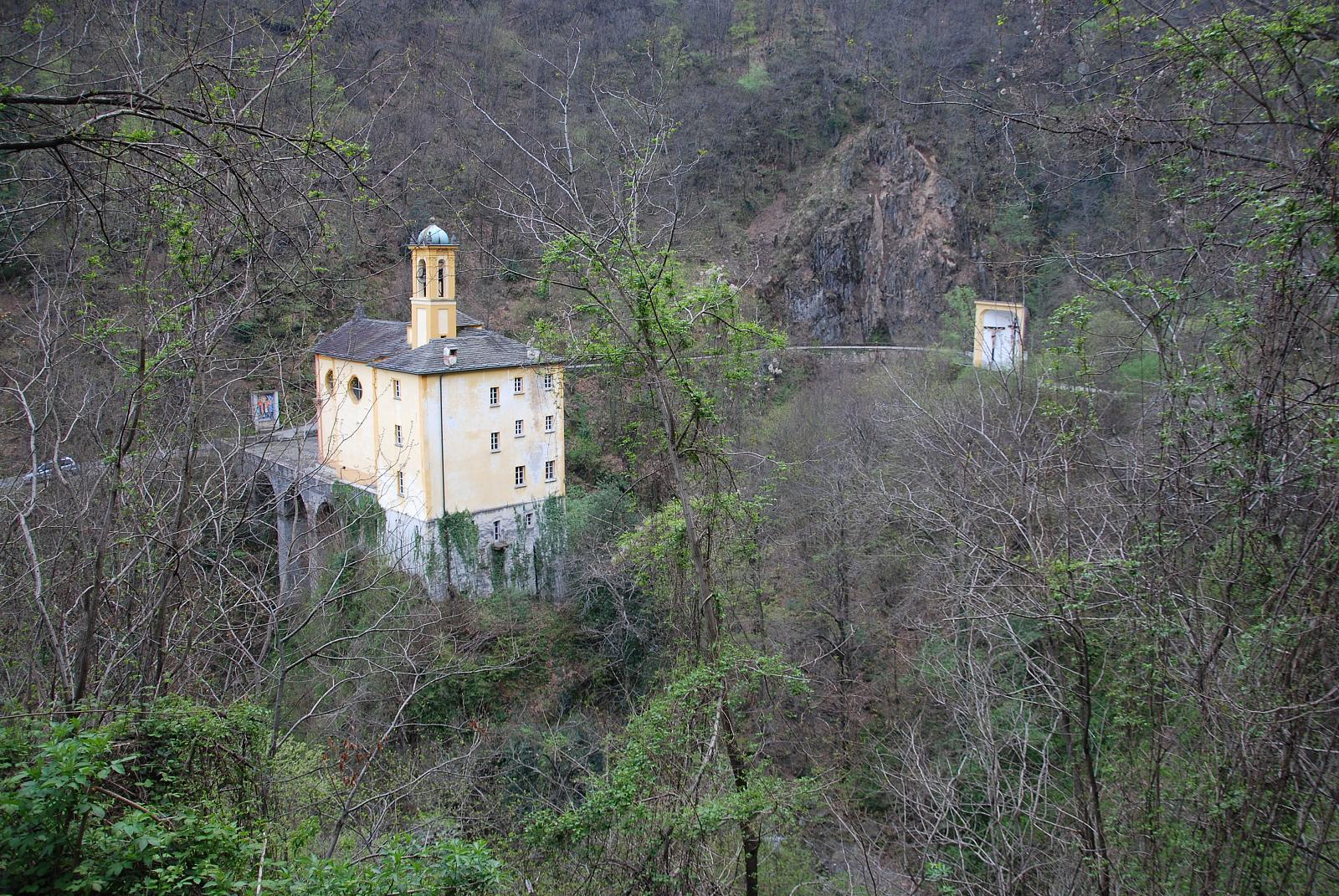 The church Madonna Sacro Monte in Brissago, Ticino, Switzerland